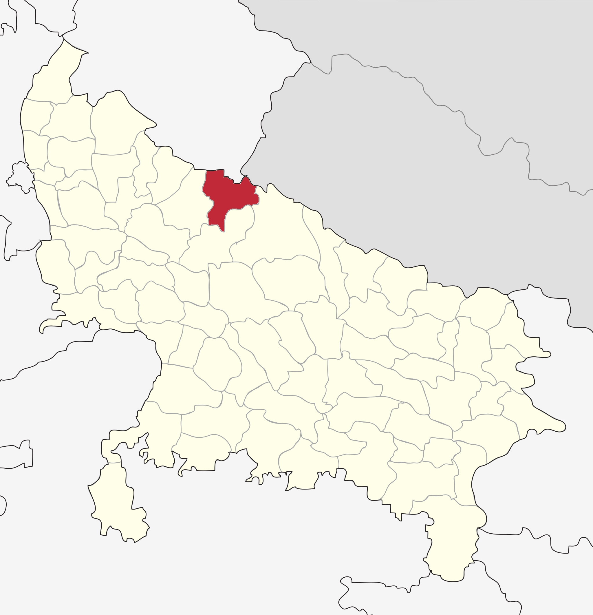 India Uttar Pradesh districts 2012 Pilbhit.svg corrected to India Uttar Pradesh districts 2012 Pilibhit.svg